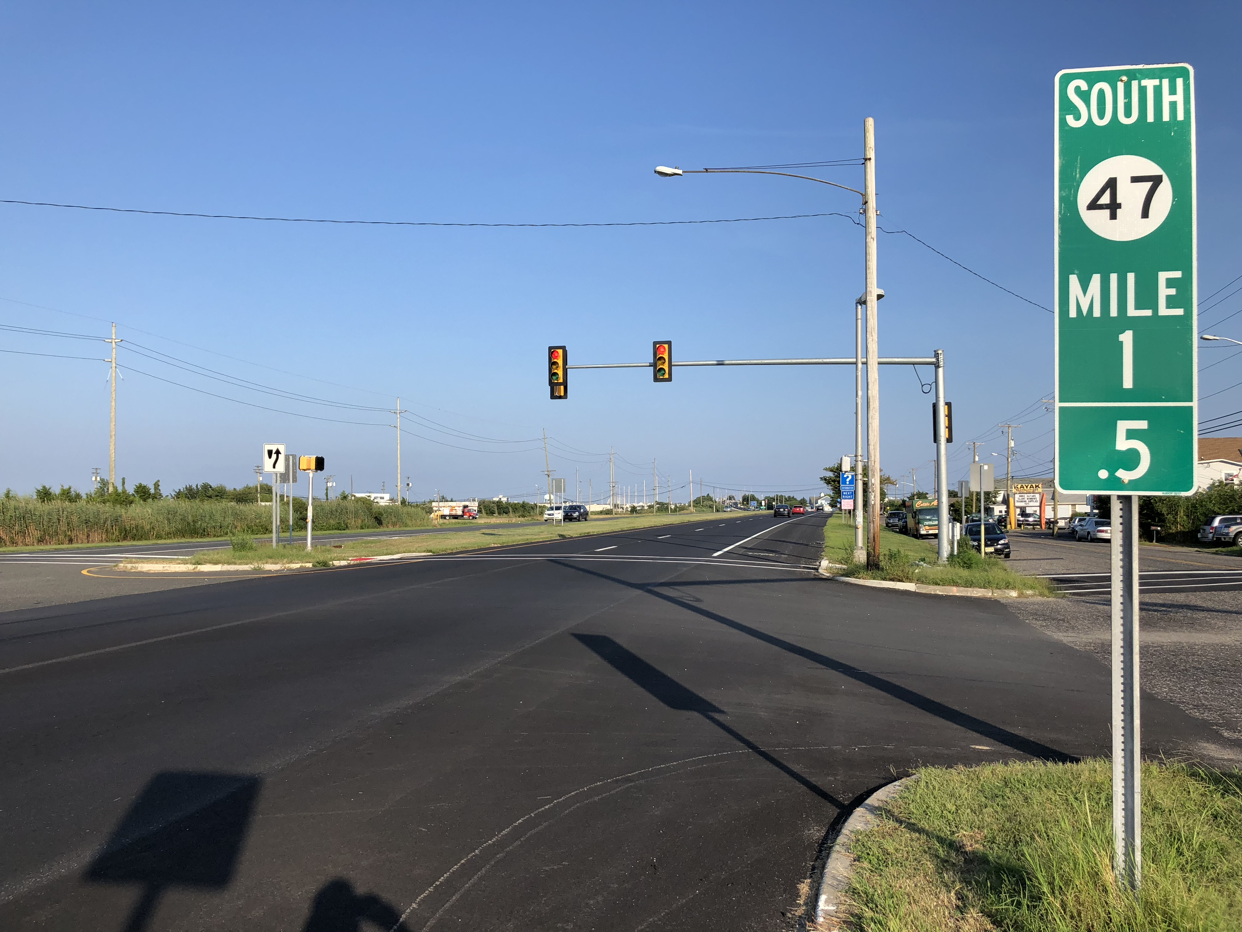 View south along New Jersey State Route 47 (Wildwood Boulevard) at Cape May County 624 (Old Rio Grande Boulevard) in Lower Township, Cape May County, New Jersey